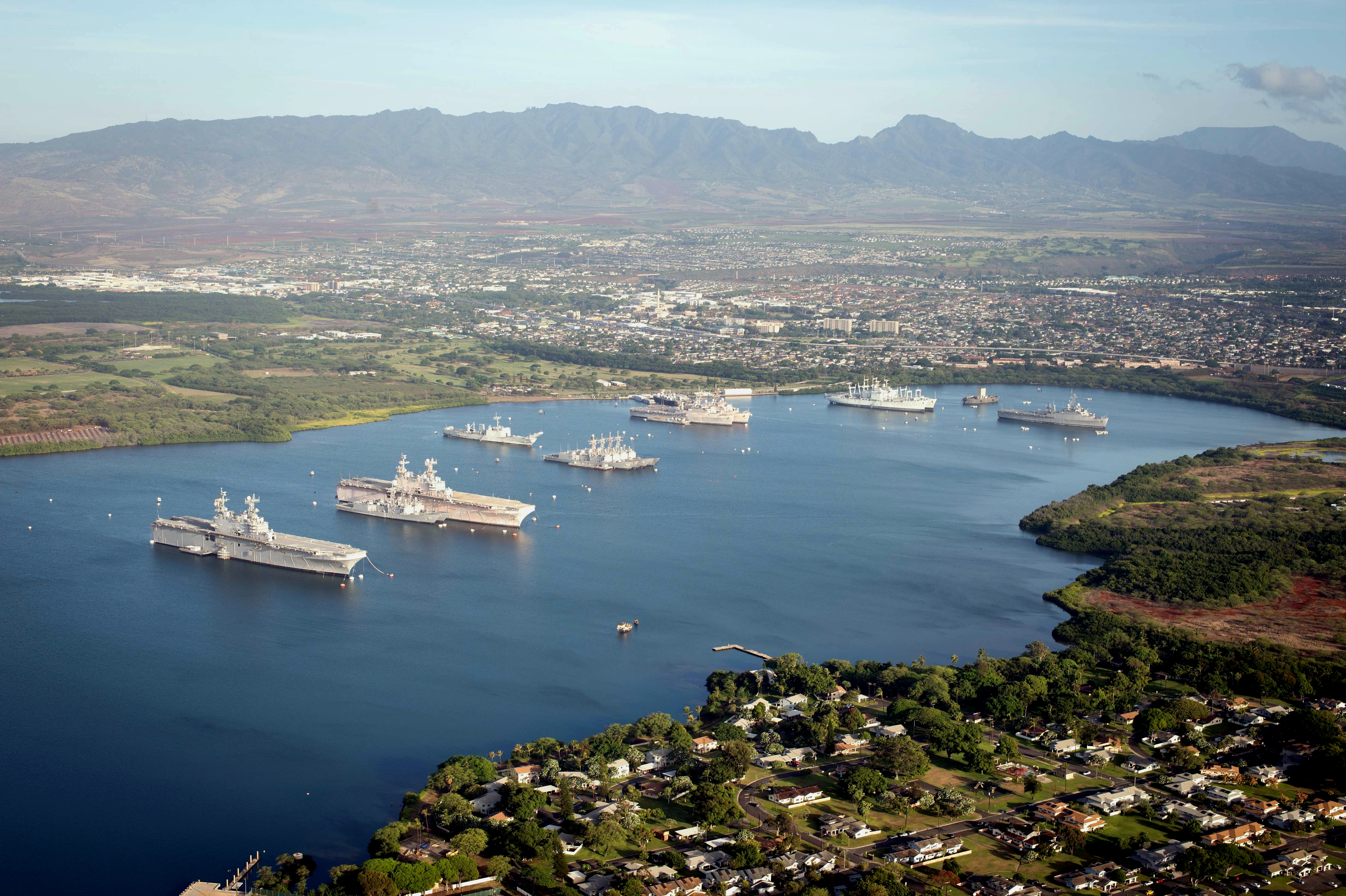 View of mothballed U.S. Navy ships in the Middle Loch of Pearl Harbor, Hawaii (USA), on 1 July 2016. Identifiable ships are (front to back): USS Peleliu (LHA-5); USS McClusky (FFG-41); USS Vandegrift (FFG-48); USS Tarawa (LHA-1); four Oliver Hazard Perry-class frigates, probably USS Crommelin (FFG-37), USS Curts (FFG-38), USS Thach (FFG-43) and USS Rentz (FFG-46). Crommelin and Thach were scheduled to be sunk during the exercise RIMPAC 2016 in July 2016; USS Racine (LST-1191); the dock landing ships USS Cleveland (LPD-7), USS Denver (LPD-9) and USS Juneau (LPD-10); the attack transports USS Durham (LKA-114) and USS St. Louis (LKA-116).